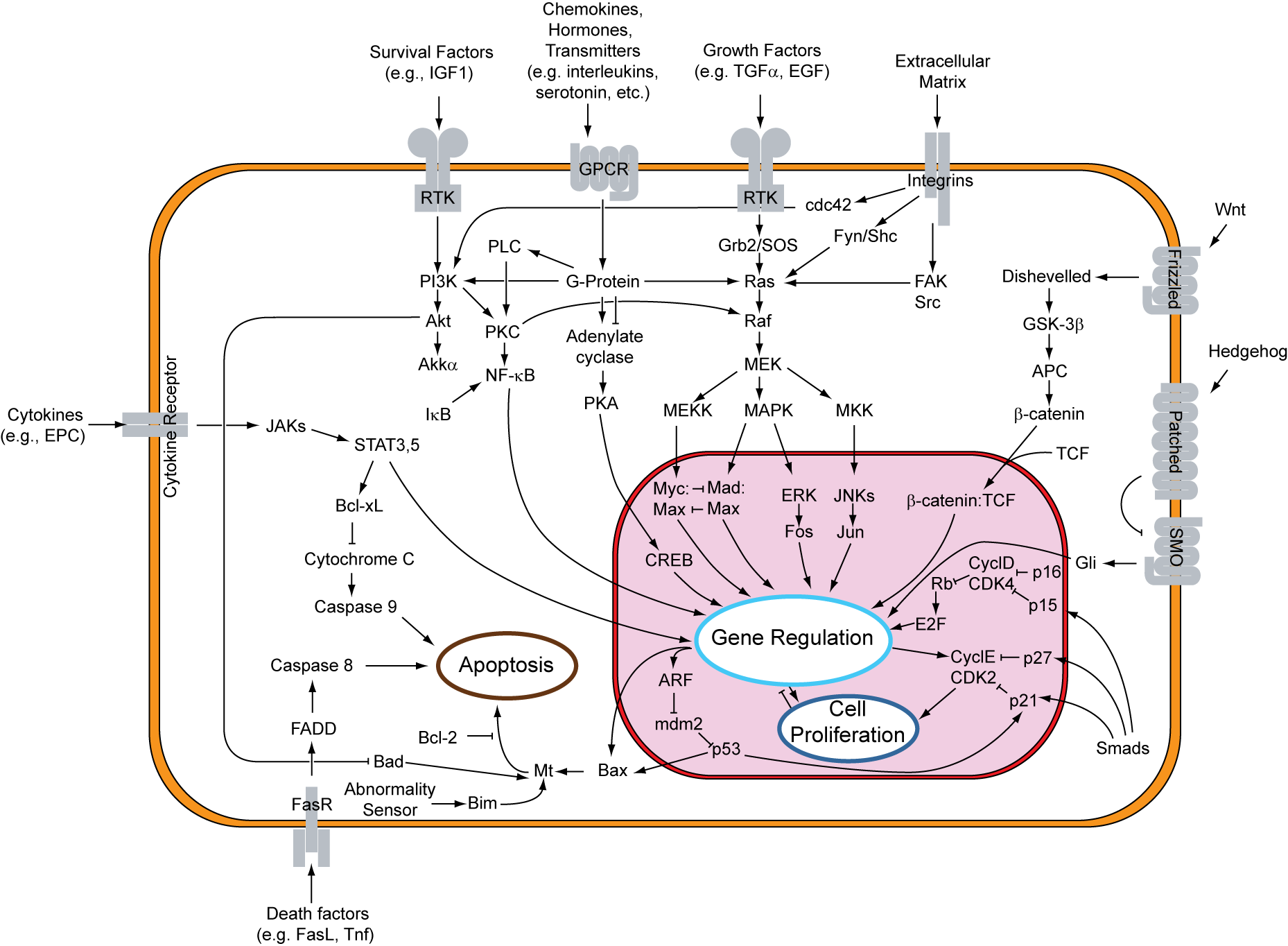 Signal transduction pathways. Picture is a new version of old figure self-made in illustrator.